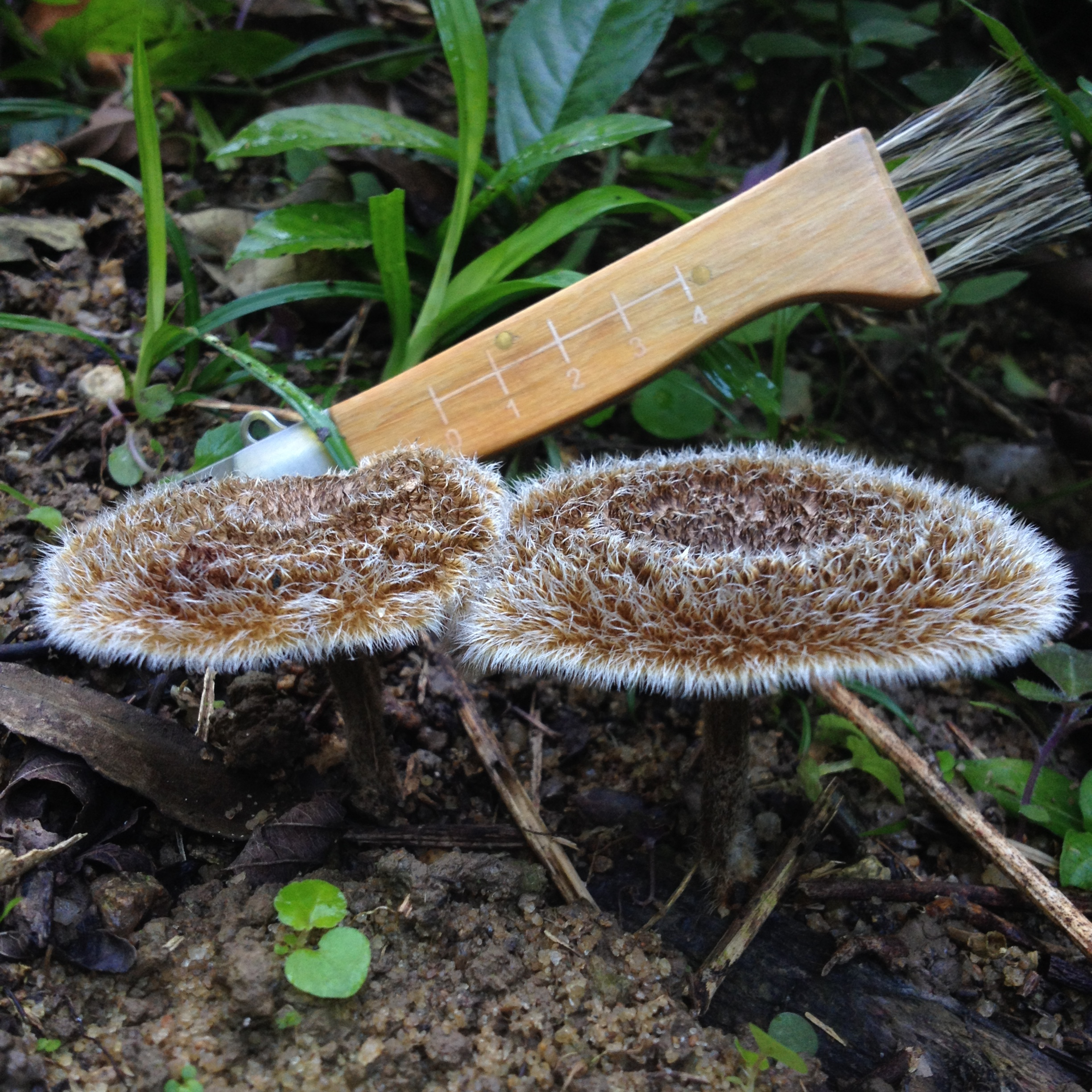 Lentinus berteroi (Fr.) Fr. Image location: Vargem Grande, Rio de Janeiro, Brazil Found on unrecognized tree root, around a manioc plantation…. Recognized by sight For more information about this, see the observation page at Mushroom Observer.